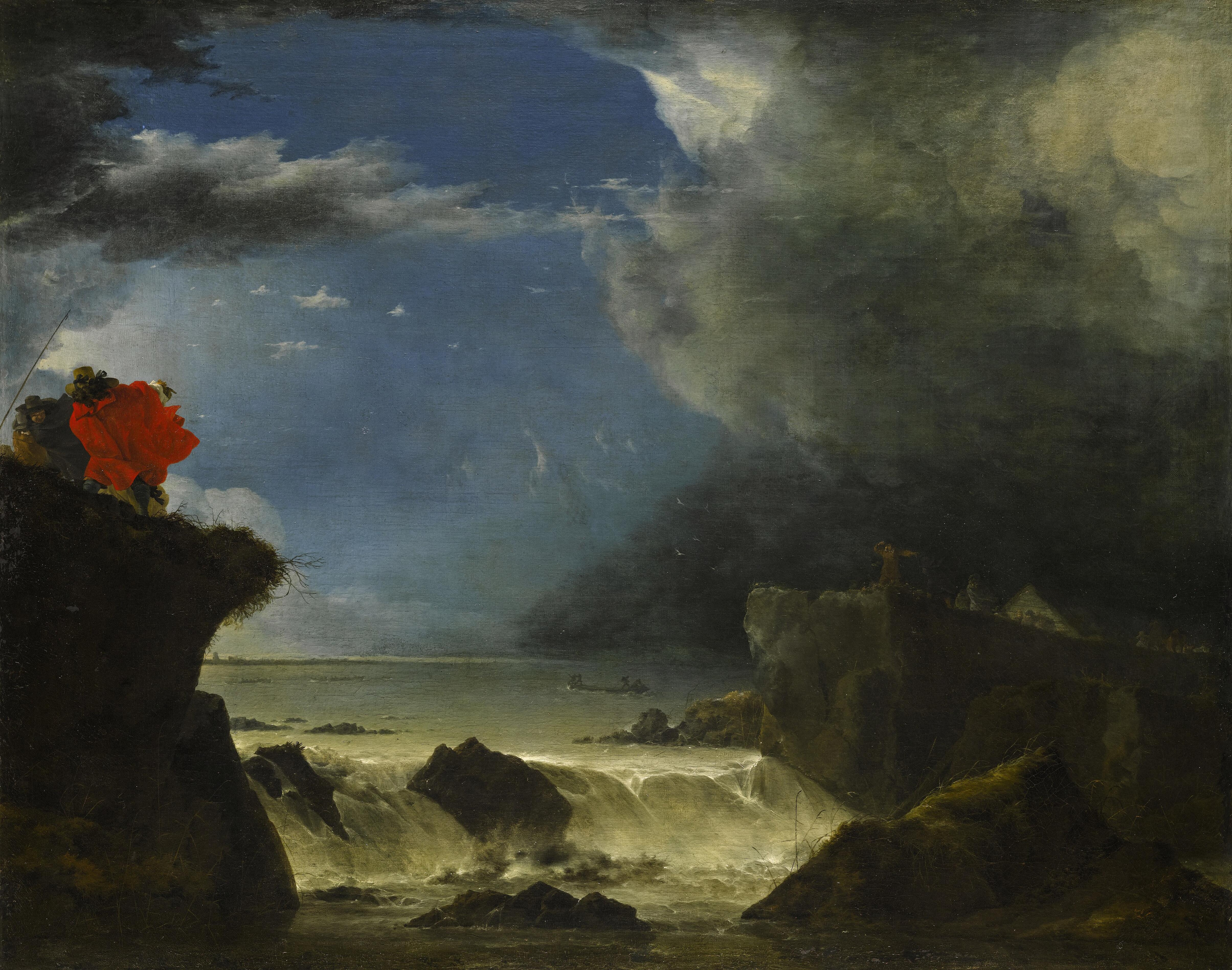 Jan Asselijn (1610 - 1652): The breach of the Sint Anthonisdijk on the night of 5–6 March 1651. Bought by the Dutch Rijkmuseum in March 2015.